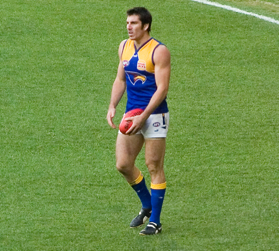 Quinten Lynch, a West Coast Eagles player, in a match against the Hawthorn Football Club at York Park in 2005.